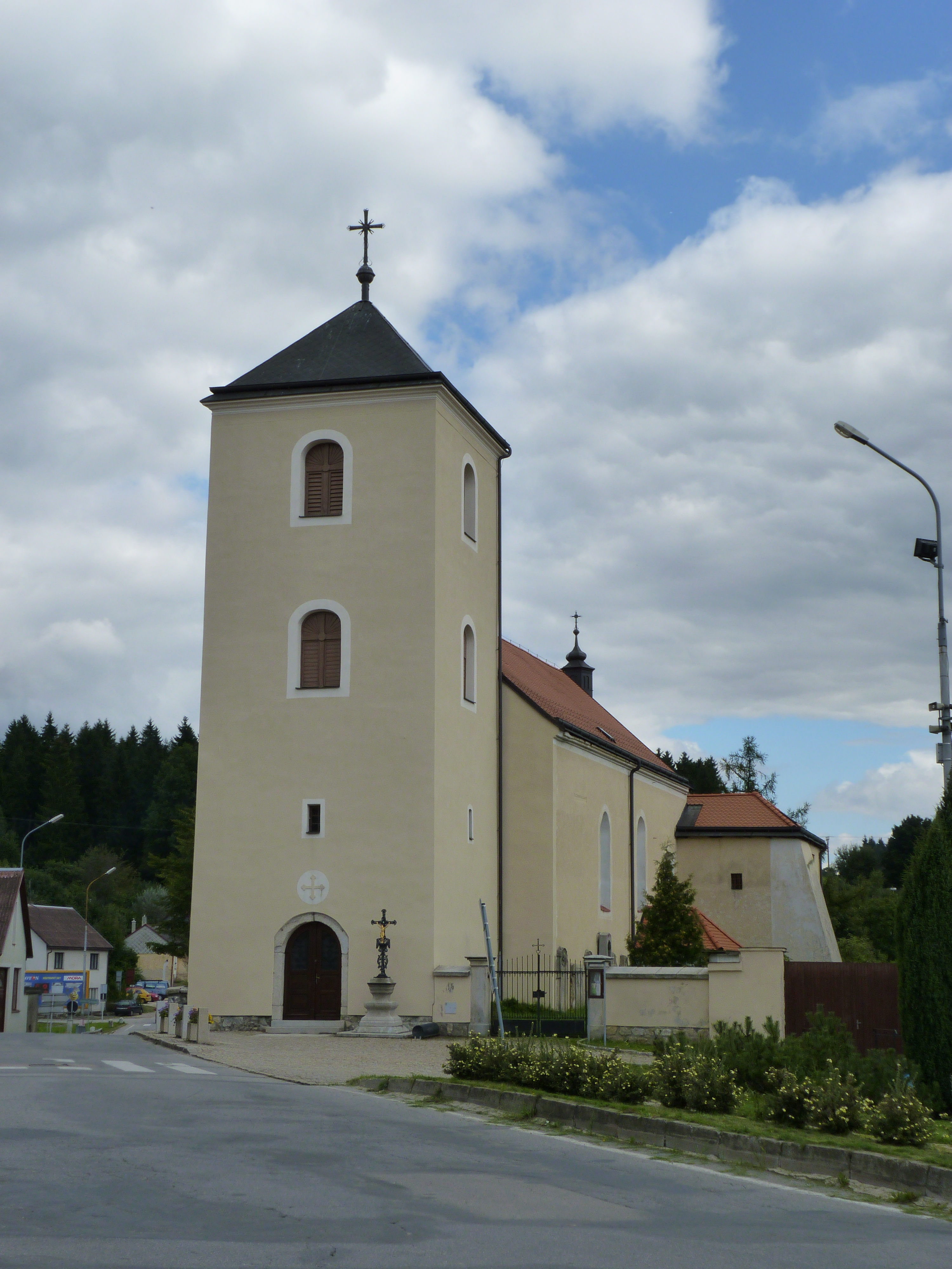 Studená, Jindřichův Hradec District, South Bohemian Region, Czech Republic